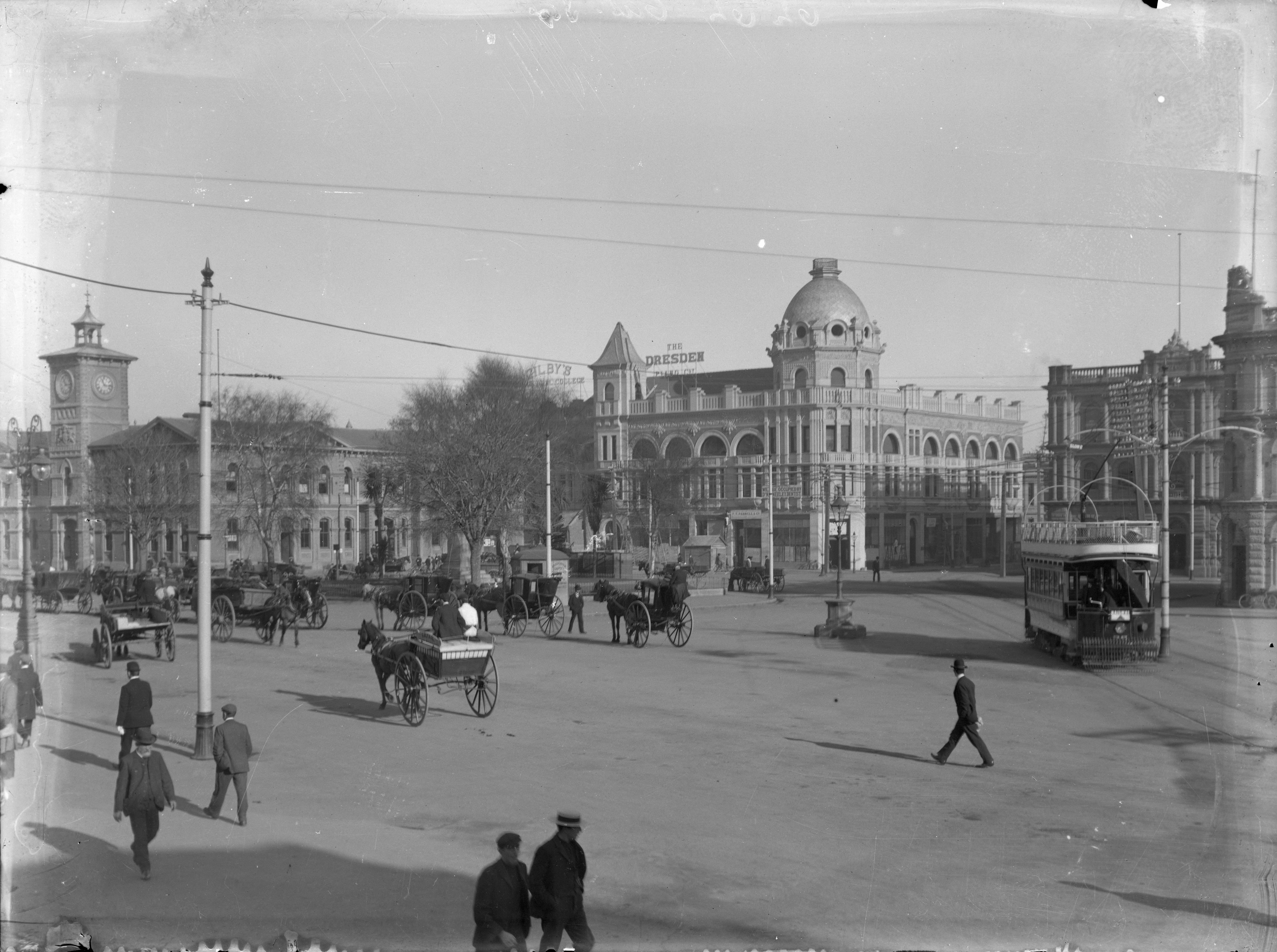 Cathedral Square, Christchurch, showing the Christchurch Central Post Office and the Royal Exchange Building. A tram, horse drawn vehicles and pedestrians are also visible. Photograph taken circa 1910 by an unidentified photographer.